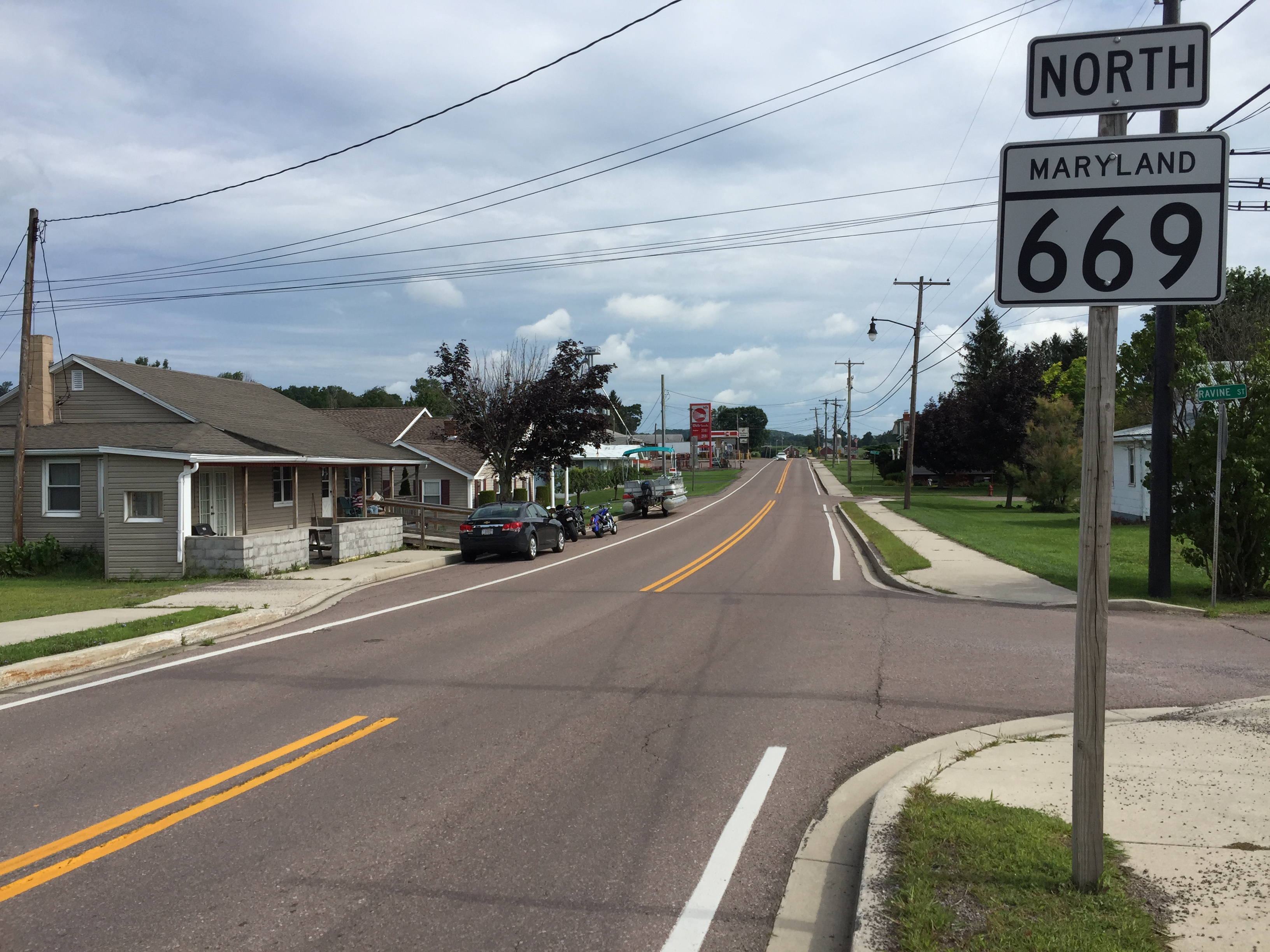 View north along Maryland State Route 669 (Springs Road) at Ravine Street in Grantsville, Garrett County, Maryland